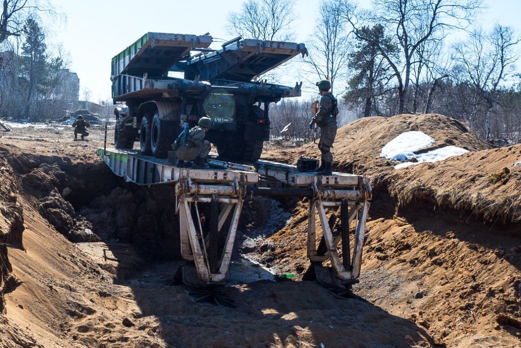 TMM-3 bridgelayer.